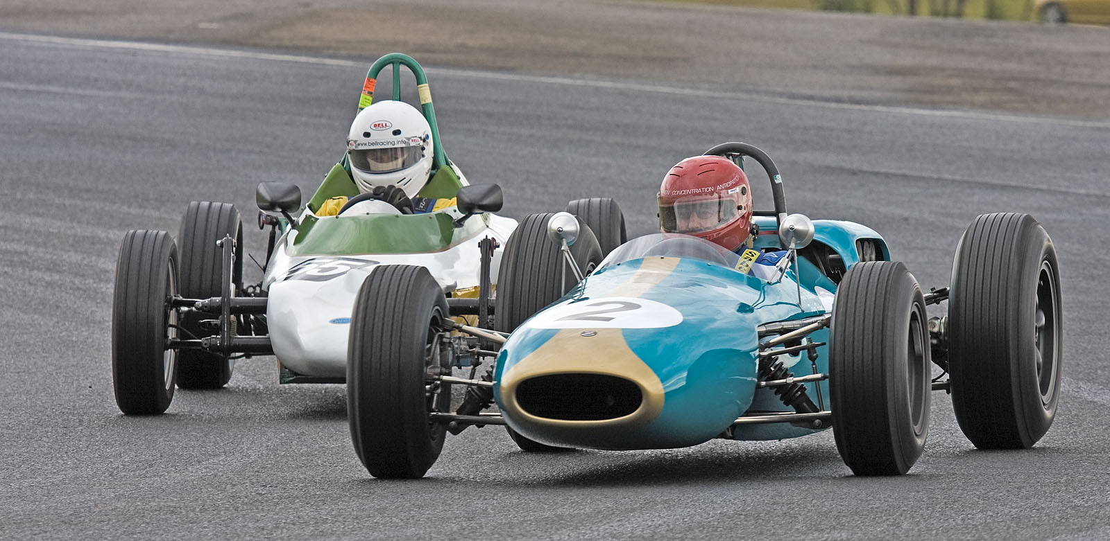 The Repco Brabham BT4 of David Jacobs at the Tasman Revival 2008, Eastern Creek, Australia.